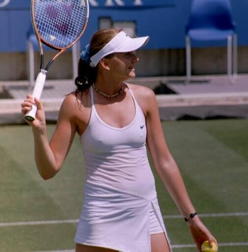 photo by Graham